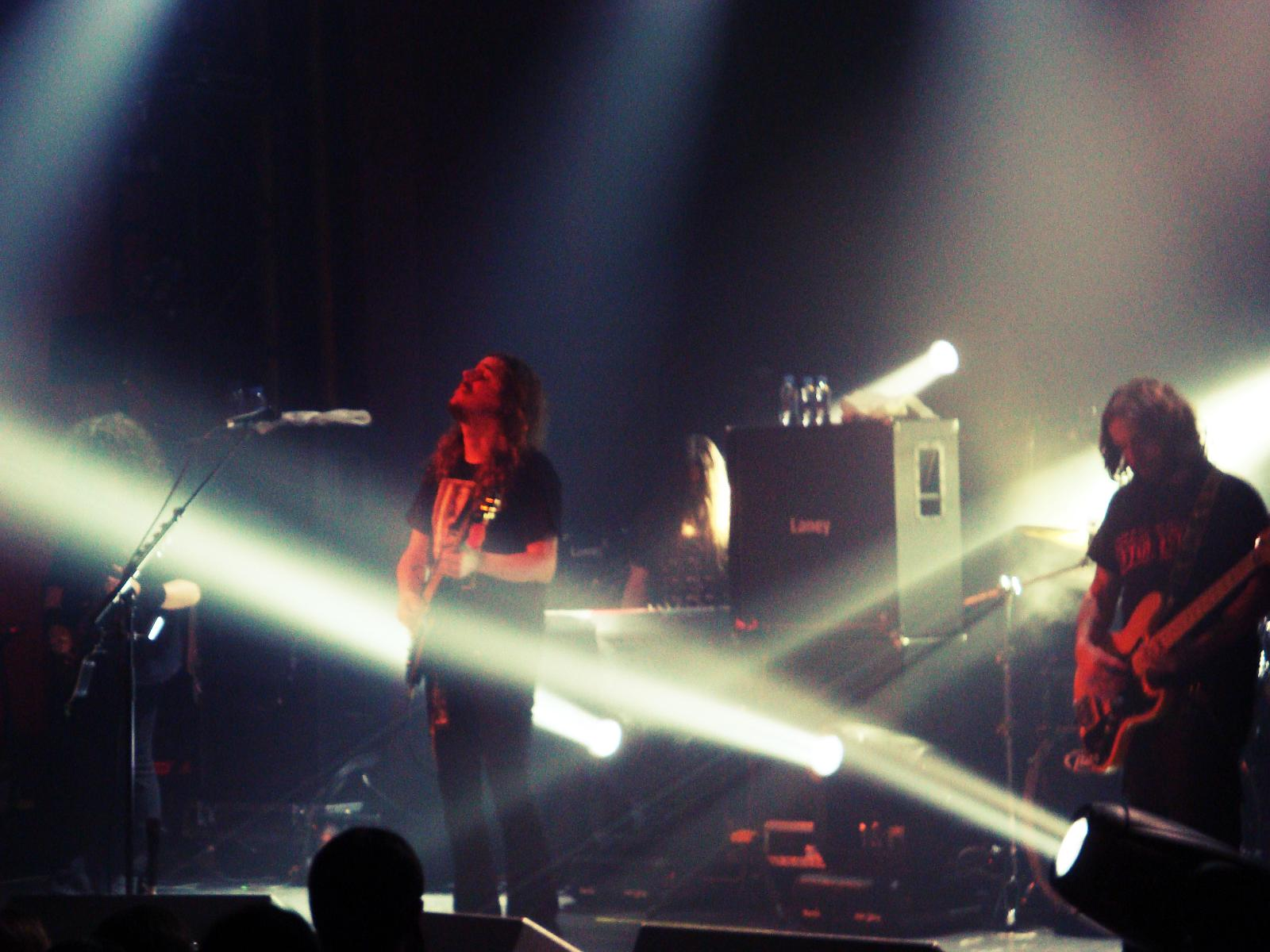 Fredrik, Mikael, Martin and Per in the background. Opeth live at Sala Apolo en 2008.